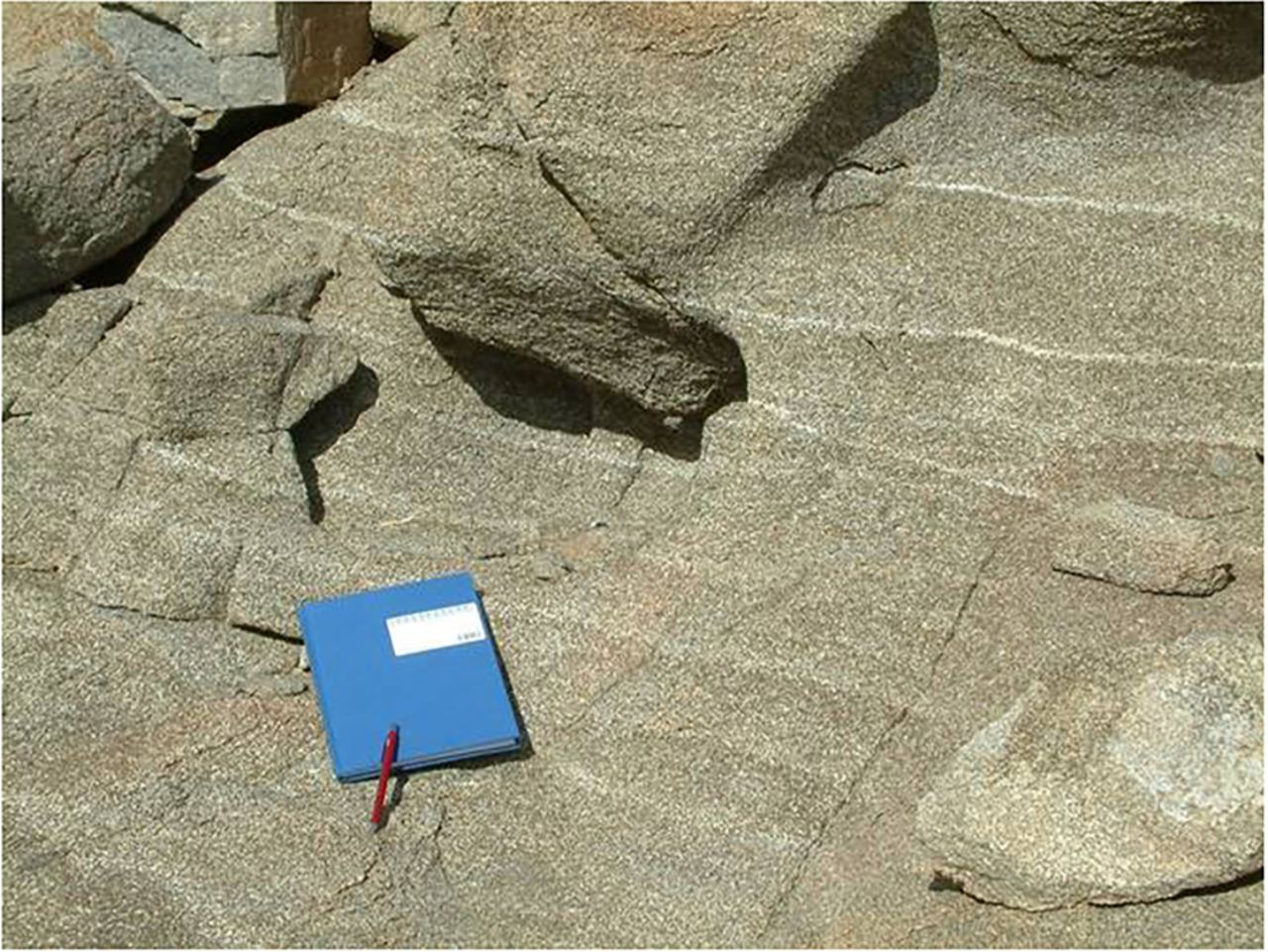 Layered websterite in Basement Sill in McMurdo Dry Valleys in Antarctica. Small scale, rhythmic layering in the LZ websterite comprising thin bands of plagioclase dispersed within a predominantly Opx matrix. Model-derived shear strain rates for congested magma where crystal loads exceed approximately 30% are comparable with experimental evidence for shear-thinning in congested magmas. The implication is that the feldspar-rich layers formed by dilation in the magma slurry during emplacement.